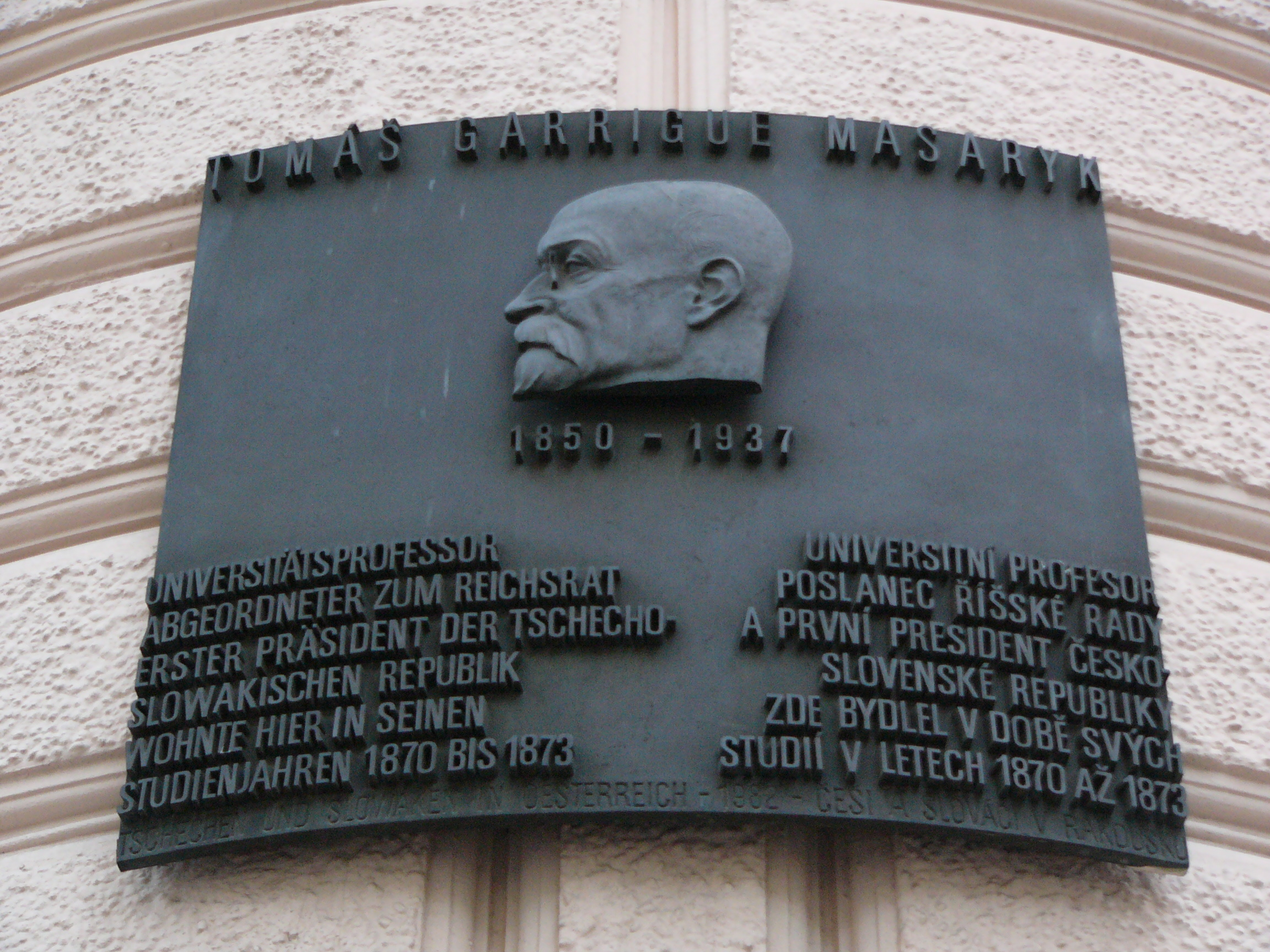 Memorial plaque devoted to Tomáš Garrigue Masaryk in 1 Petersplaz in Wien (Austria).